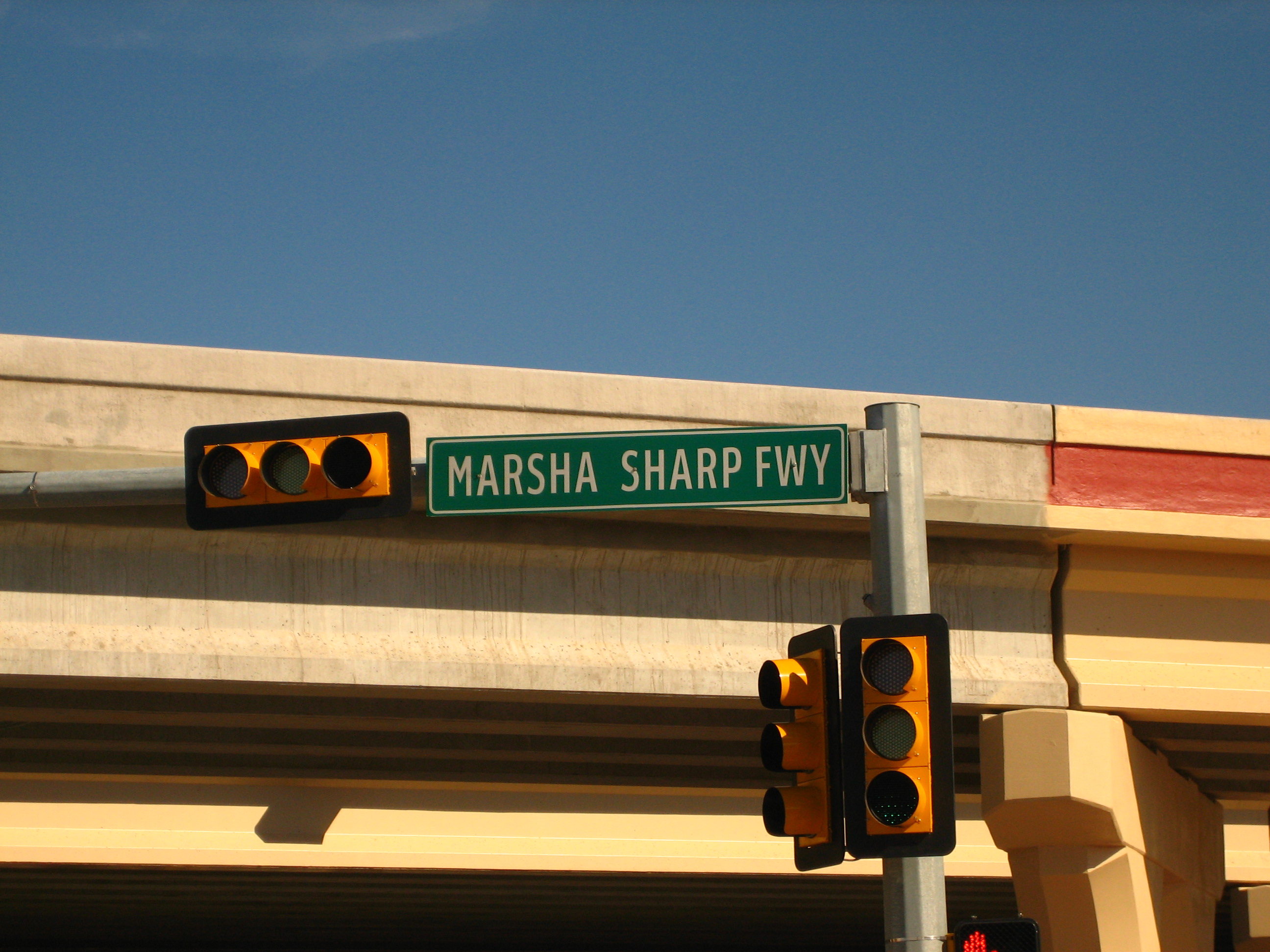 I took photo on April 5, 2009.Billy Hathorn (talk) 02:08, 7 April 2009 (UTC)